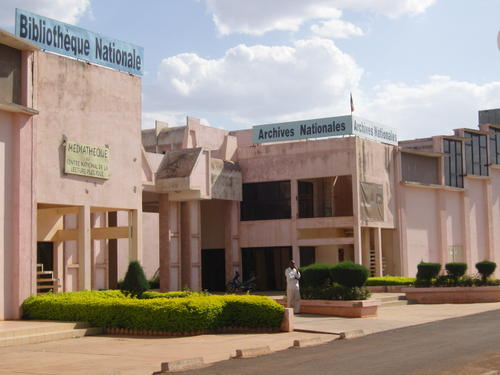 Dévanture de la DNBD